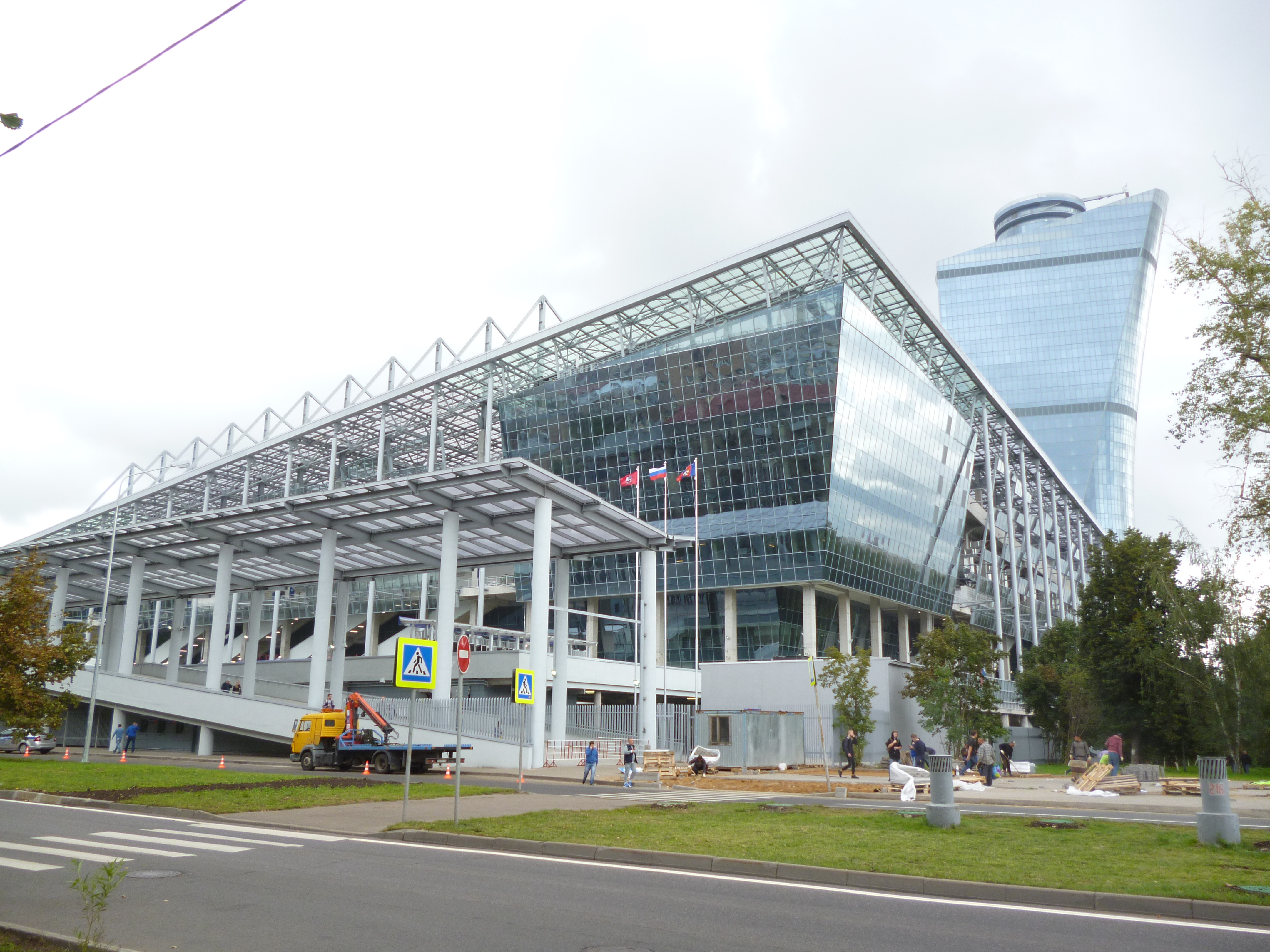 CSKA Stadium on 3rd Peschanaya Street in Moscow.